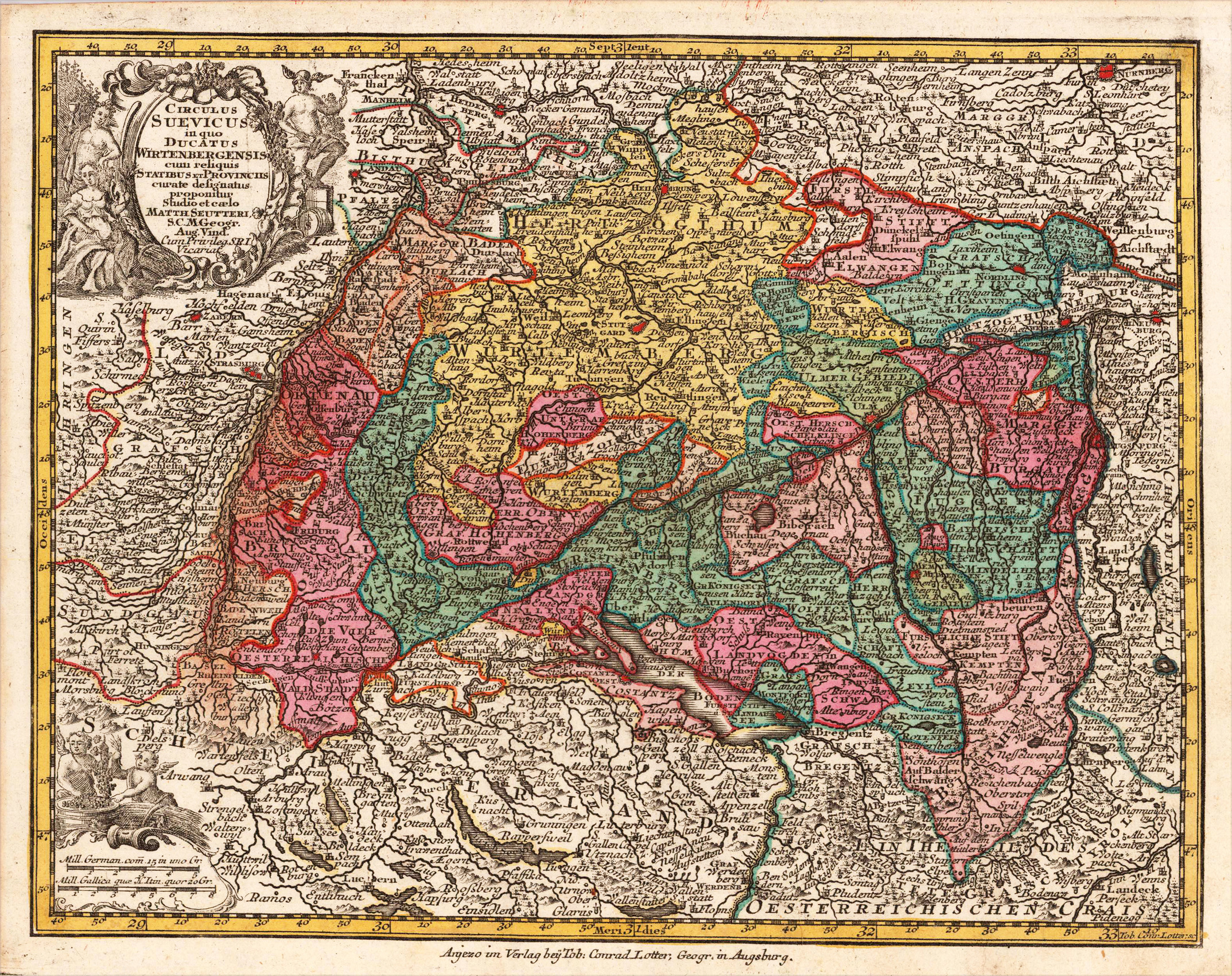 18th-century map of the Swabian Circle. Circulus Suevicus in quo Ducatus Wirtenbergensis eum reliquis Statibus et Provinciis curate designatus proponitur Studio et caelo Matth. Seutteri S.C.M. Geogr. Aug. Vind. Cum Privileg. S.R.I. Vicariat. Copper engraving, hand colored in outline and wash. 19,6 x 25,4 [cm]. comment: The Duchy of Württemberg (in yellow) and the other territories of the Circle of Swabia in the mid-18th century. By necessity, this map is an oversimplification since there were more than 90 distinct territories listed as members of the Swabian Circle in the late 18th century, as well as a very large number of enclaves and exclaves.